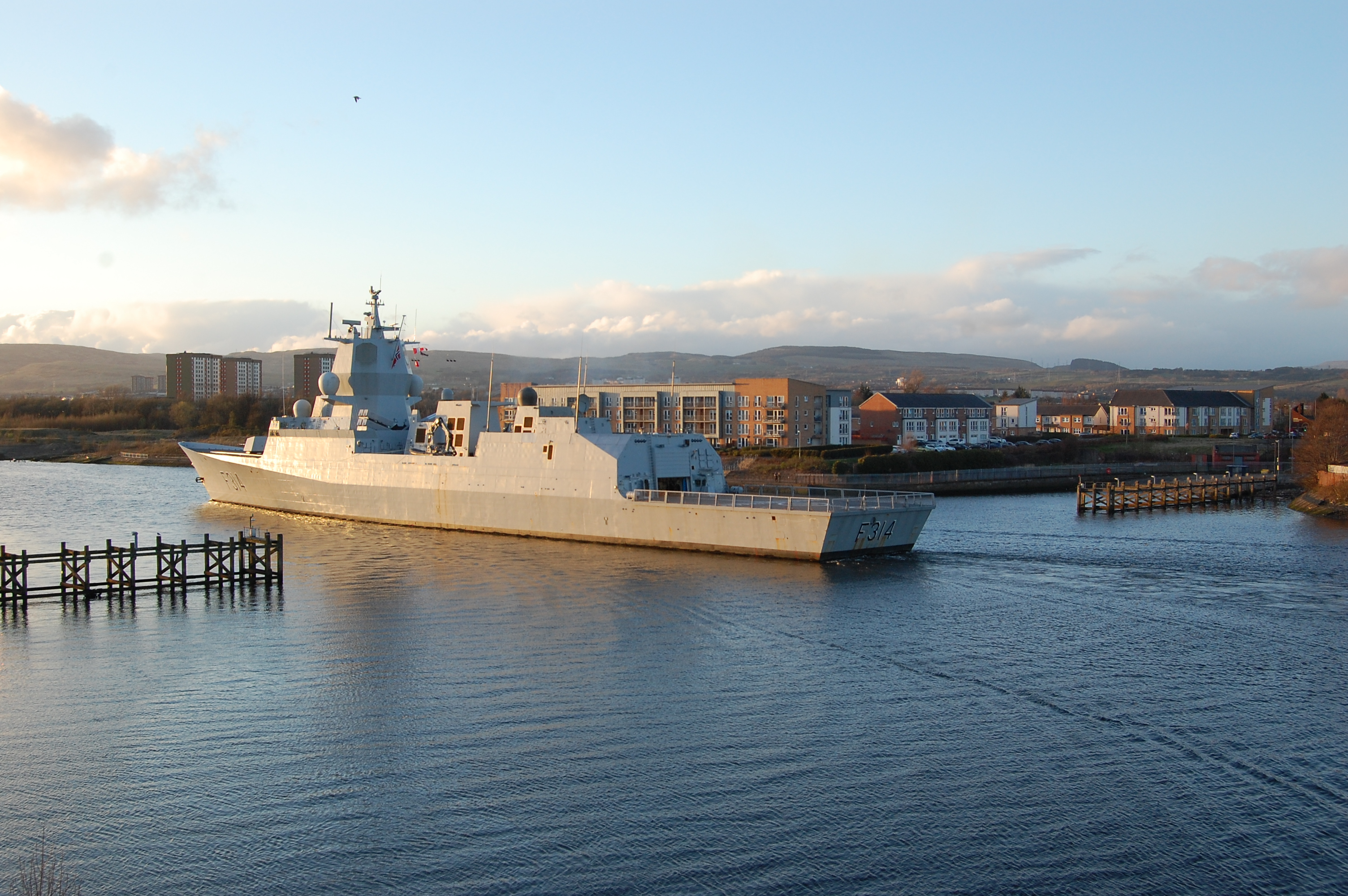 F314 on the Clyde